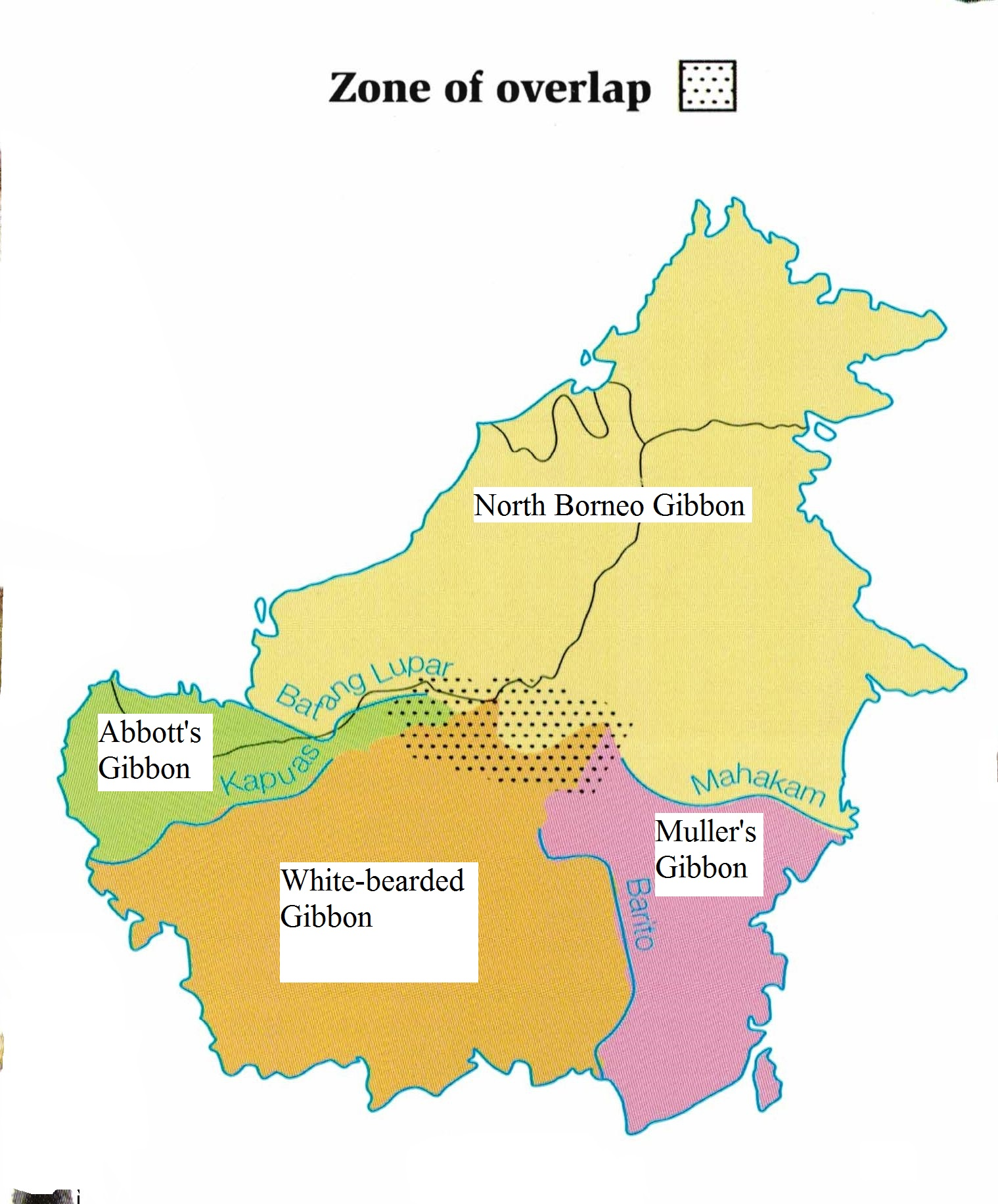 Distribution Map of the four endemic gibbons found in Borneo